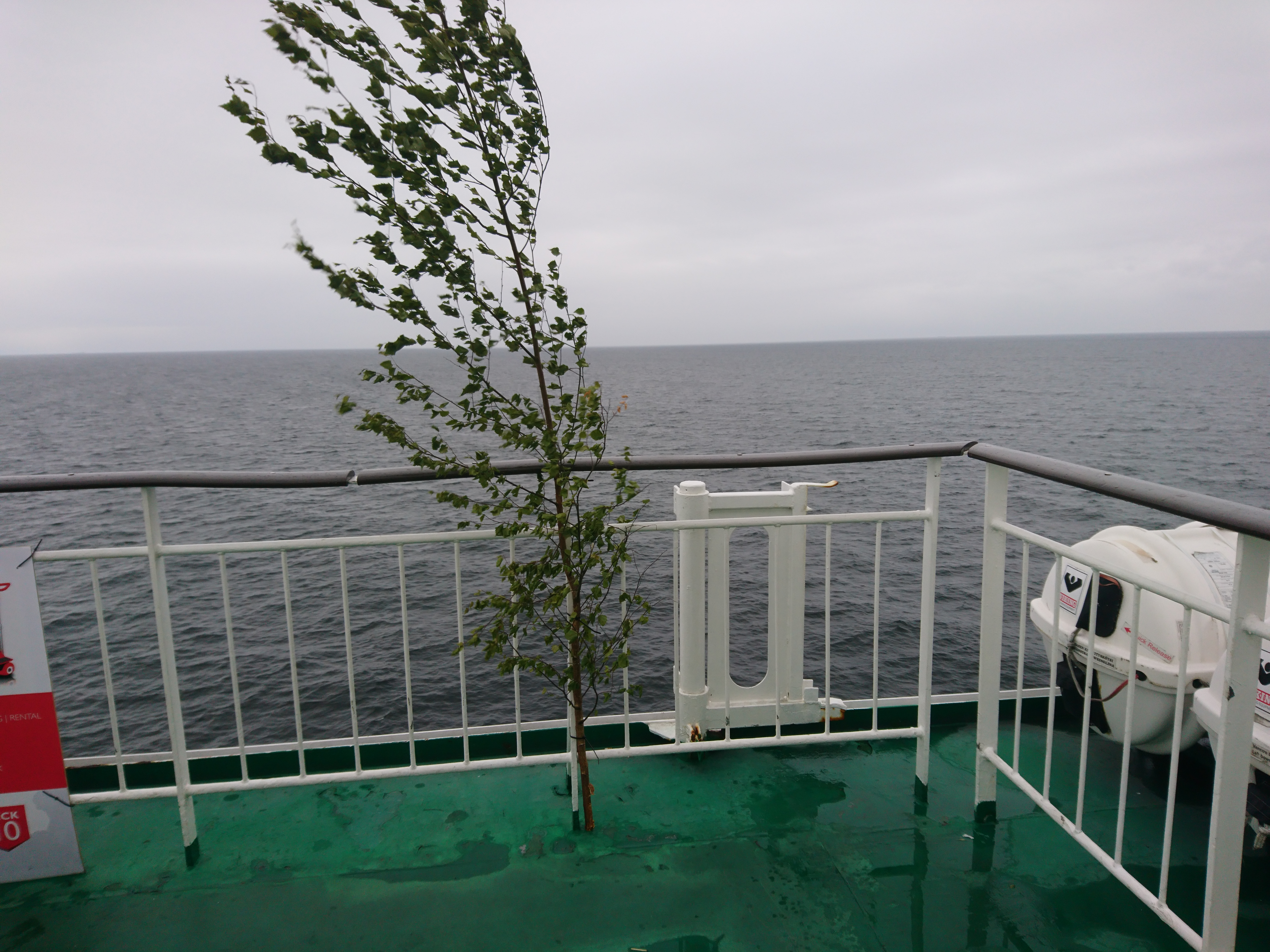 Midsummer birch tree at M/S Mariella ship on Finnish Midsummer in 2017.